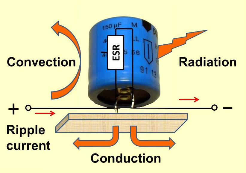 Ripple current across e-caps ESR causes internal heat which has to be dissipated to ambient